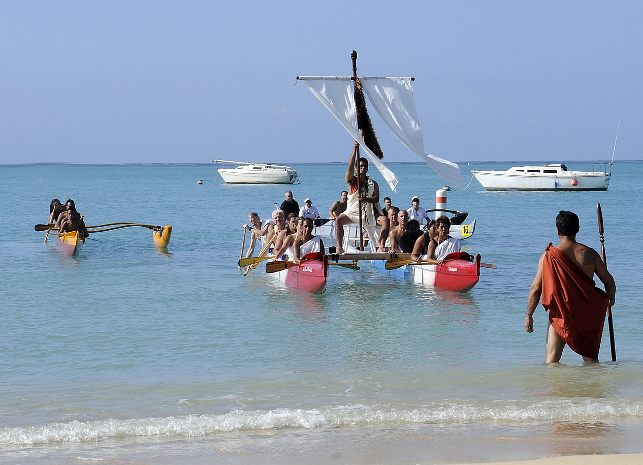 PEAR HARBOR (October 22, 2011) Participants of the annual Makahiki festival begin the event with the arrival to Joint Base Pearl Harbor-Hickam of Lono, a deified guardian of agriculture, rain, health and peace. The event, organized by the Oahu Council of Hawaiian Civic Clubs, has been held on the shores of Hickam Harbor Beach and Ford Island for 10 years. (U.S. Navy photo by Mass Communication Specialist Seaman Dustin W. Sisco/released)